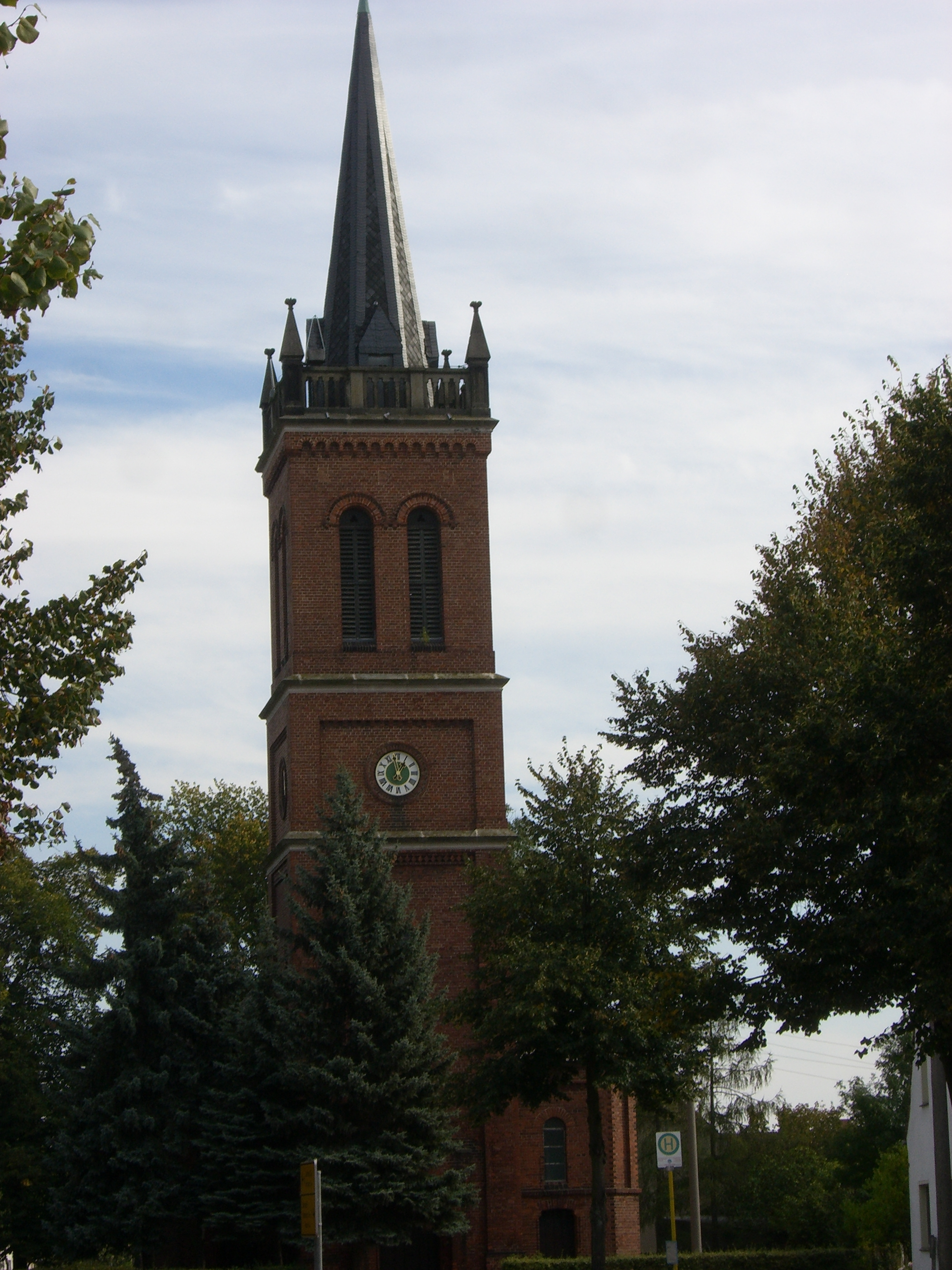 Church of Holzdorf